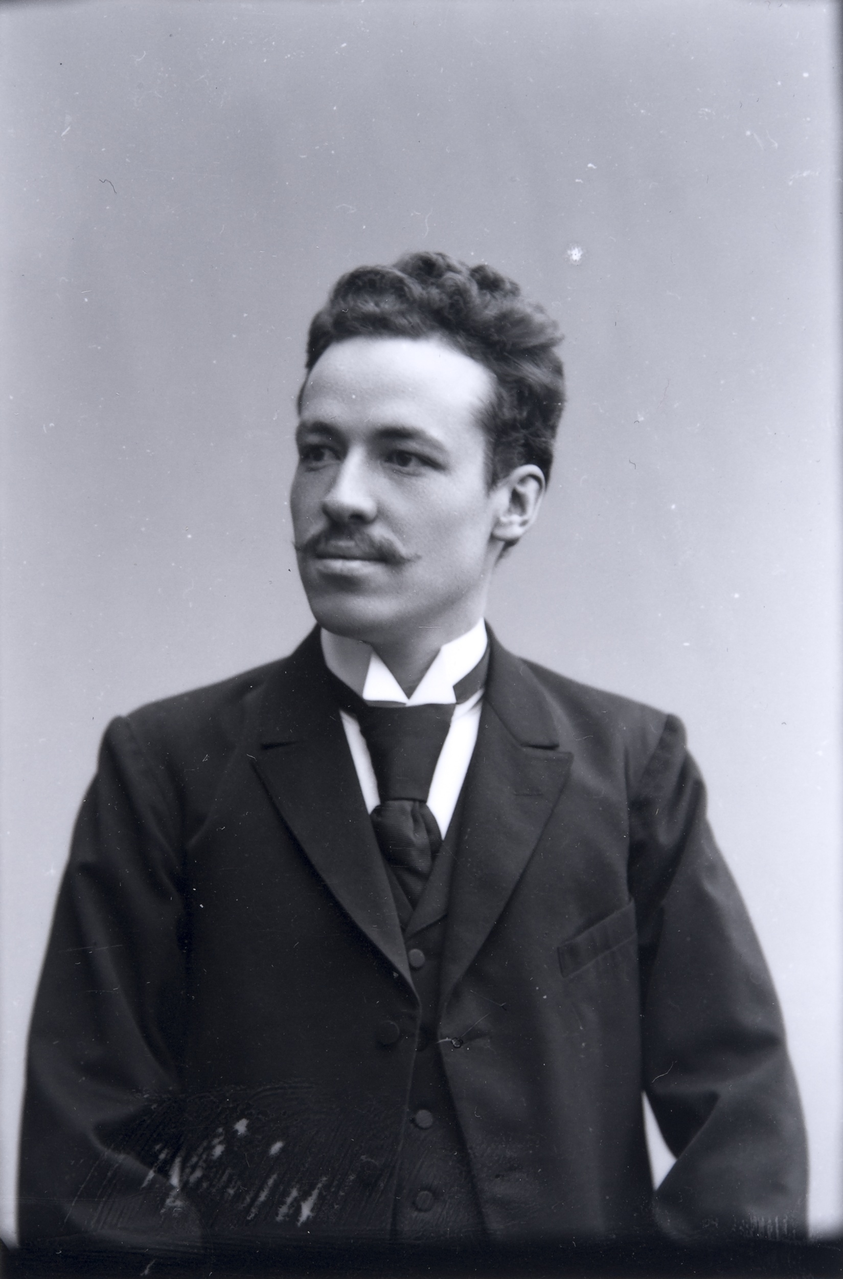 Photograph of the Finnish painter Hugo Simberg (1873–1917).